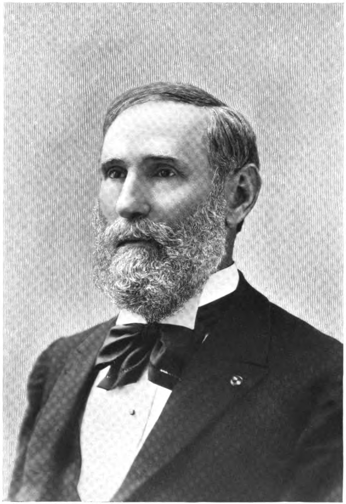 William R. Warnock, Ohio congressman in 1897.